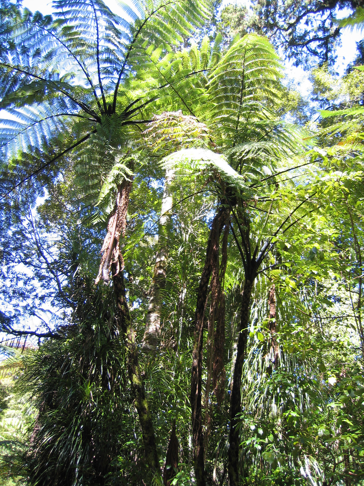 Cyathea spp. in Waipoua forest.